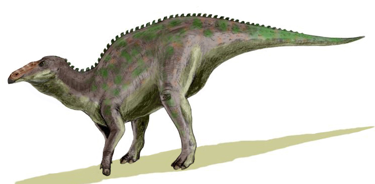 Edmontosaurus annectens (formerly Anatotitan copei), a hadrosaur from the Late Cretaceous of North America, pencil drawing